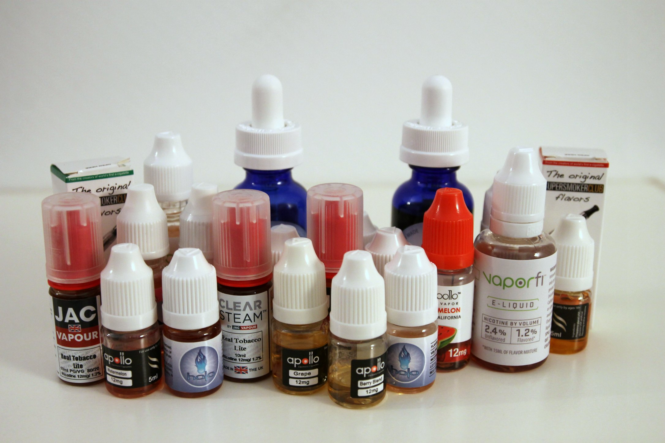 This image is released under Creative Commons. If used, please attribute a DOFOLLOW link to and not to our Flickr page. '